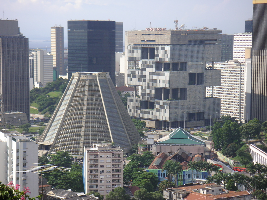 Downtown Rio de Janeiro, Brazil. The conical building centre left is the Catedral Metropolitana. To the right of it, the grey plated construct is the headquarters of Petrobras.